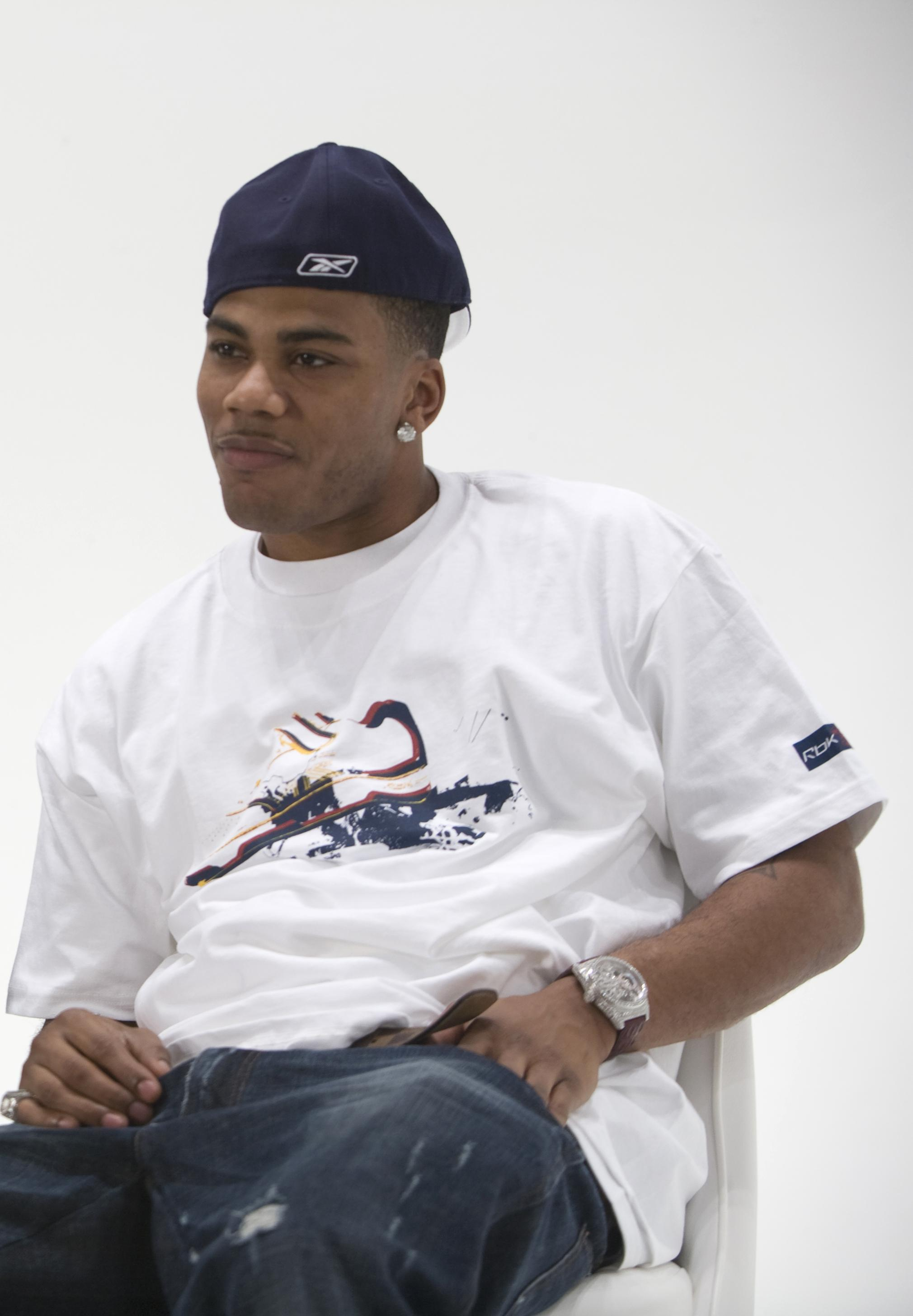 American rapper Nelly in 2007 with Allen Iverson (not pictured, as this image has been cropped simply to illustrate Nelly)